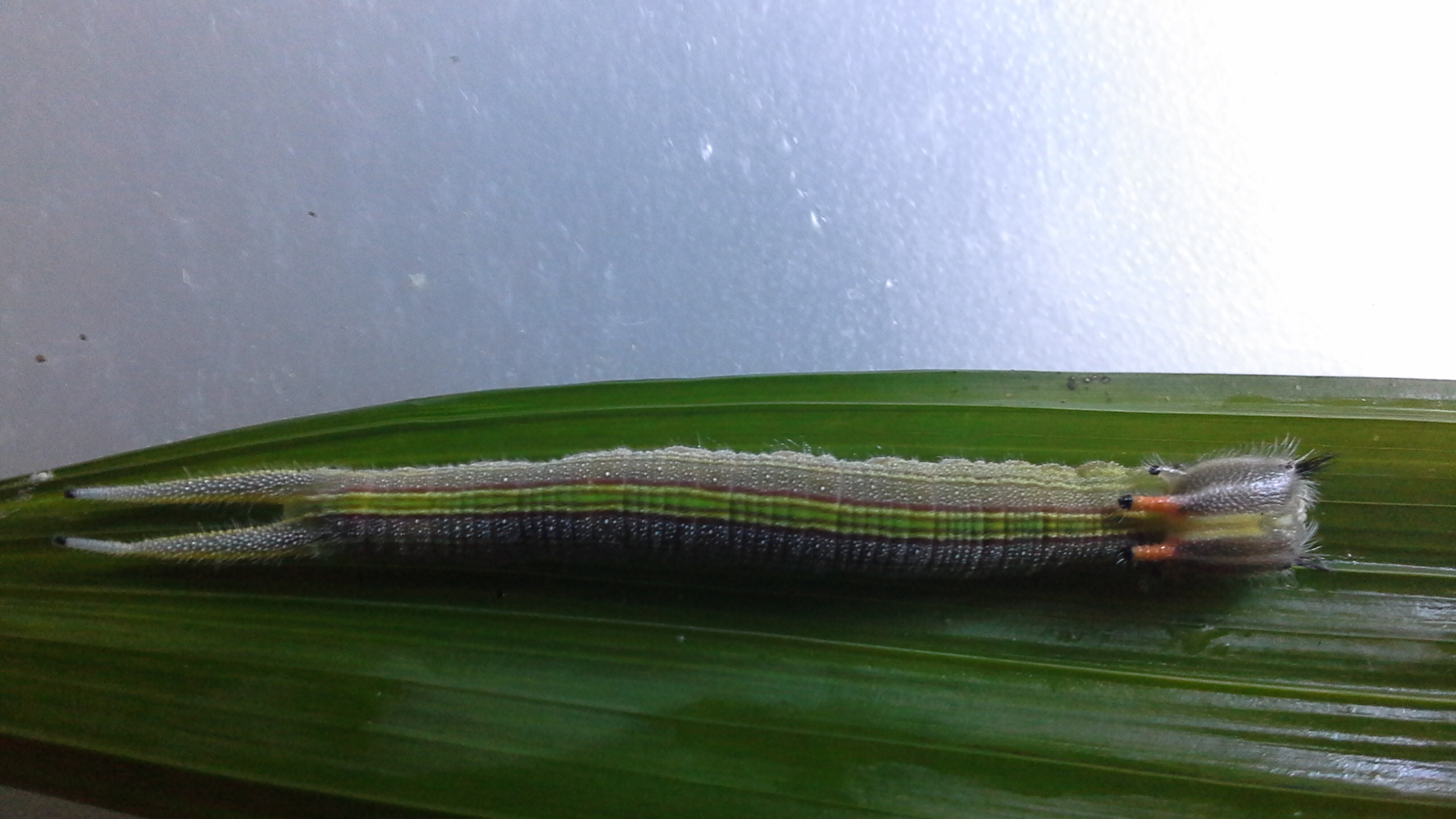 Larva en estado maduro